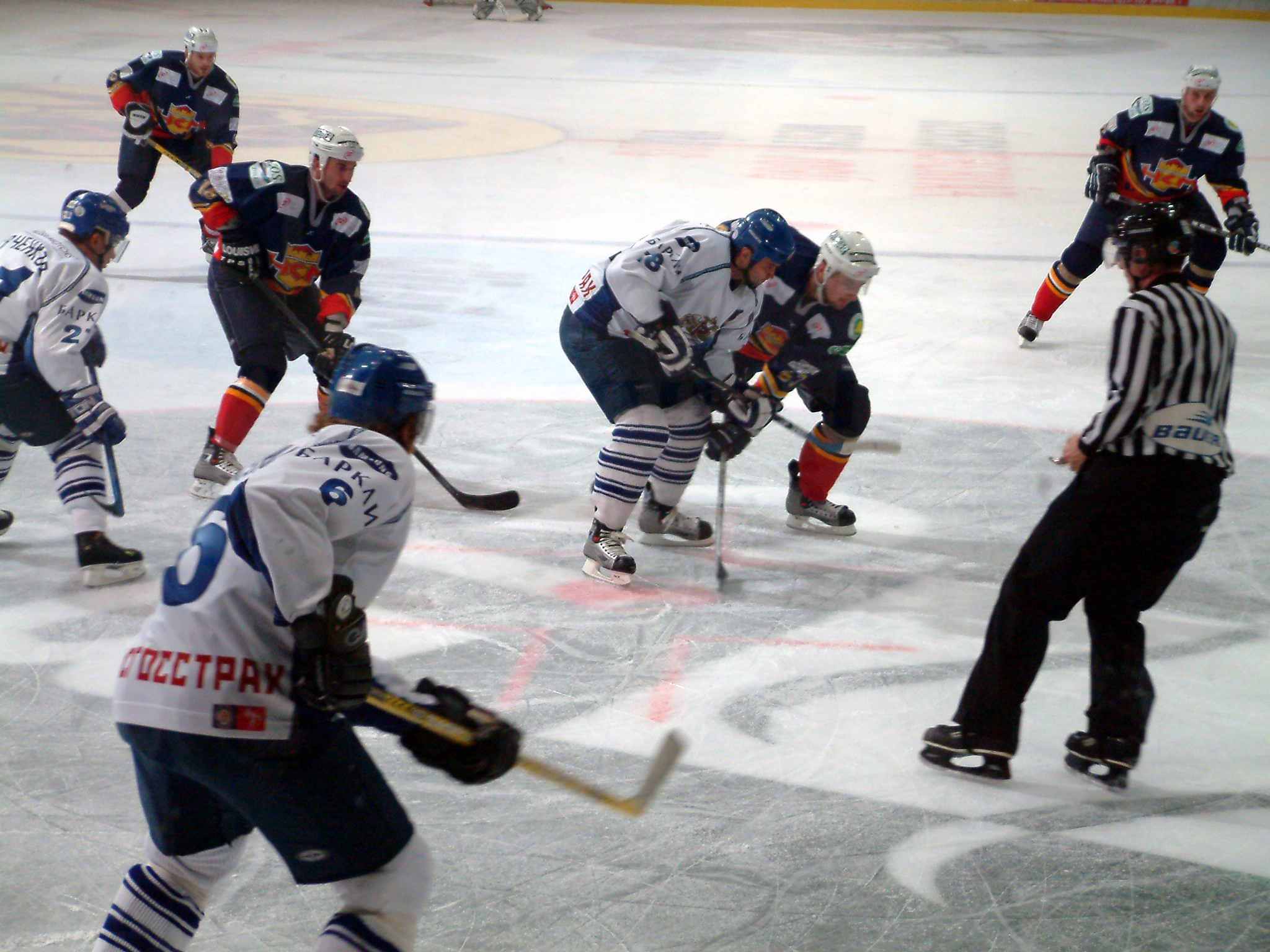 IIHF Continental Cup, Székesfehérvàr, 2004/05 - Super Final Dinamo Moscow - HKM Zvolen Face-off